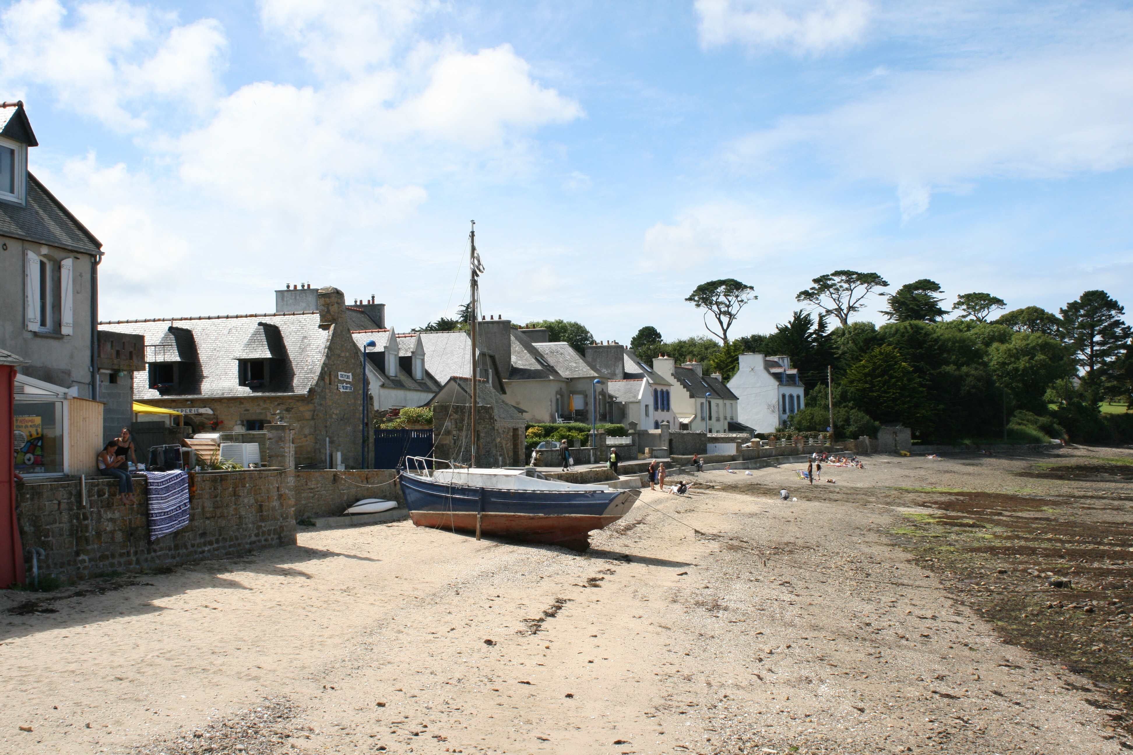 Beach by Le Fret